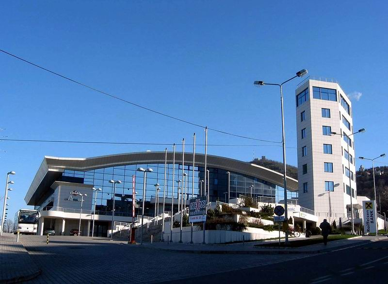 The Millenium Center in Vršac, Vojvodina, Serbia